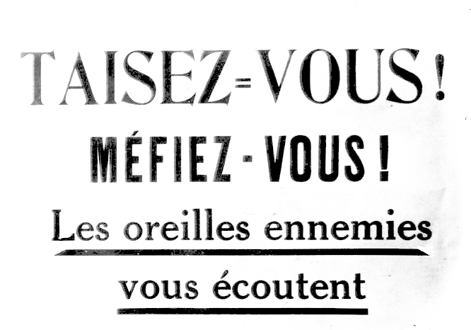 French government poster, 1915. Translation: "Keep quiet! Be on your guard! Enemy ears are listening."